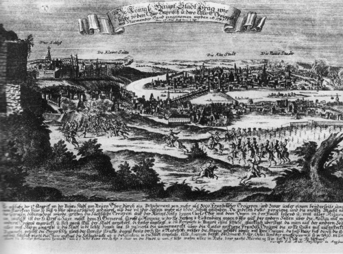 Bavaria and the French attack on the Prague